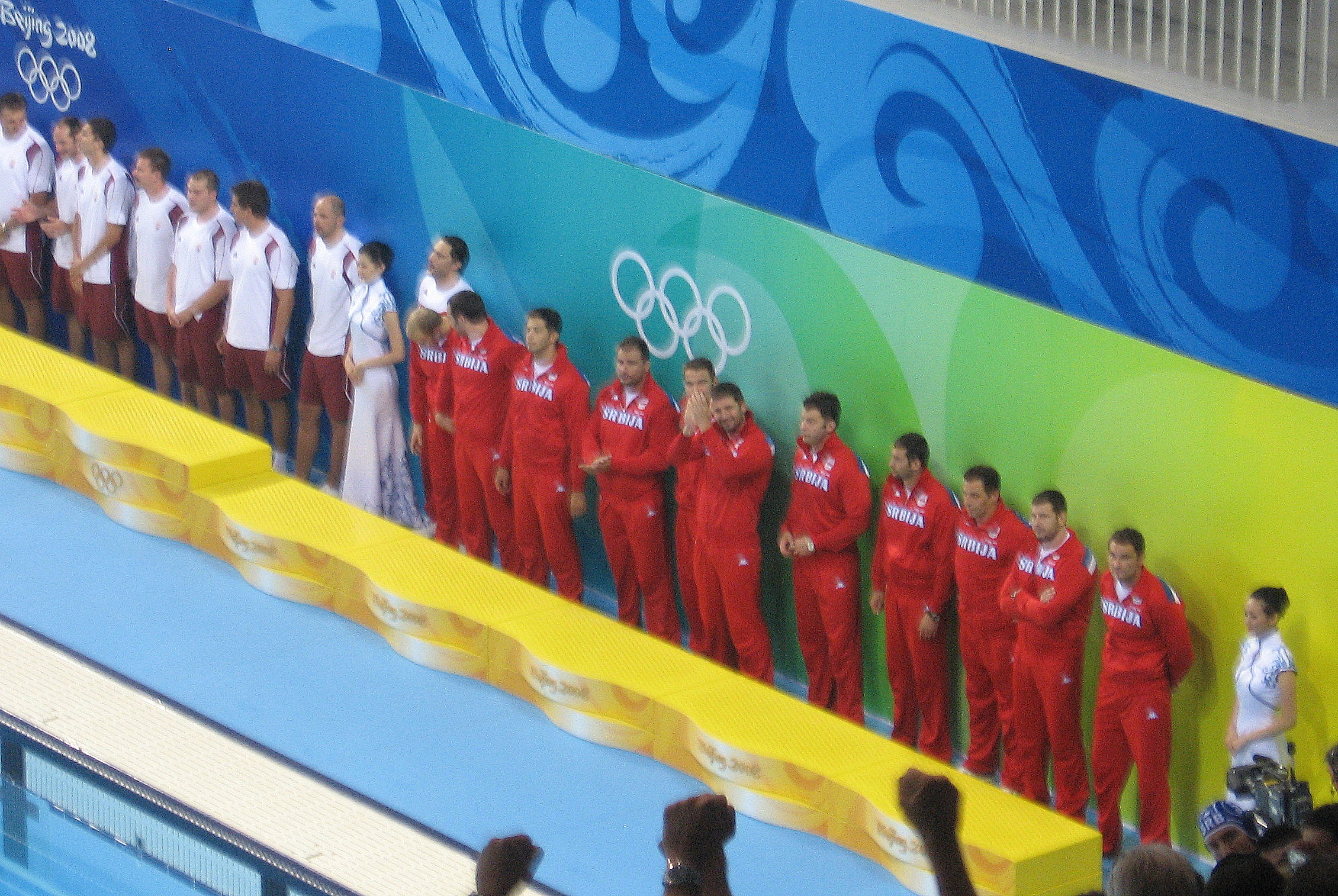 Serbia Men's Water Polo squad picks up the bronze medal at the 2008 Olympics in Beijing.